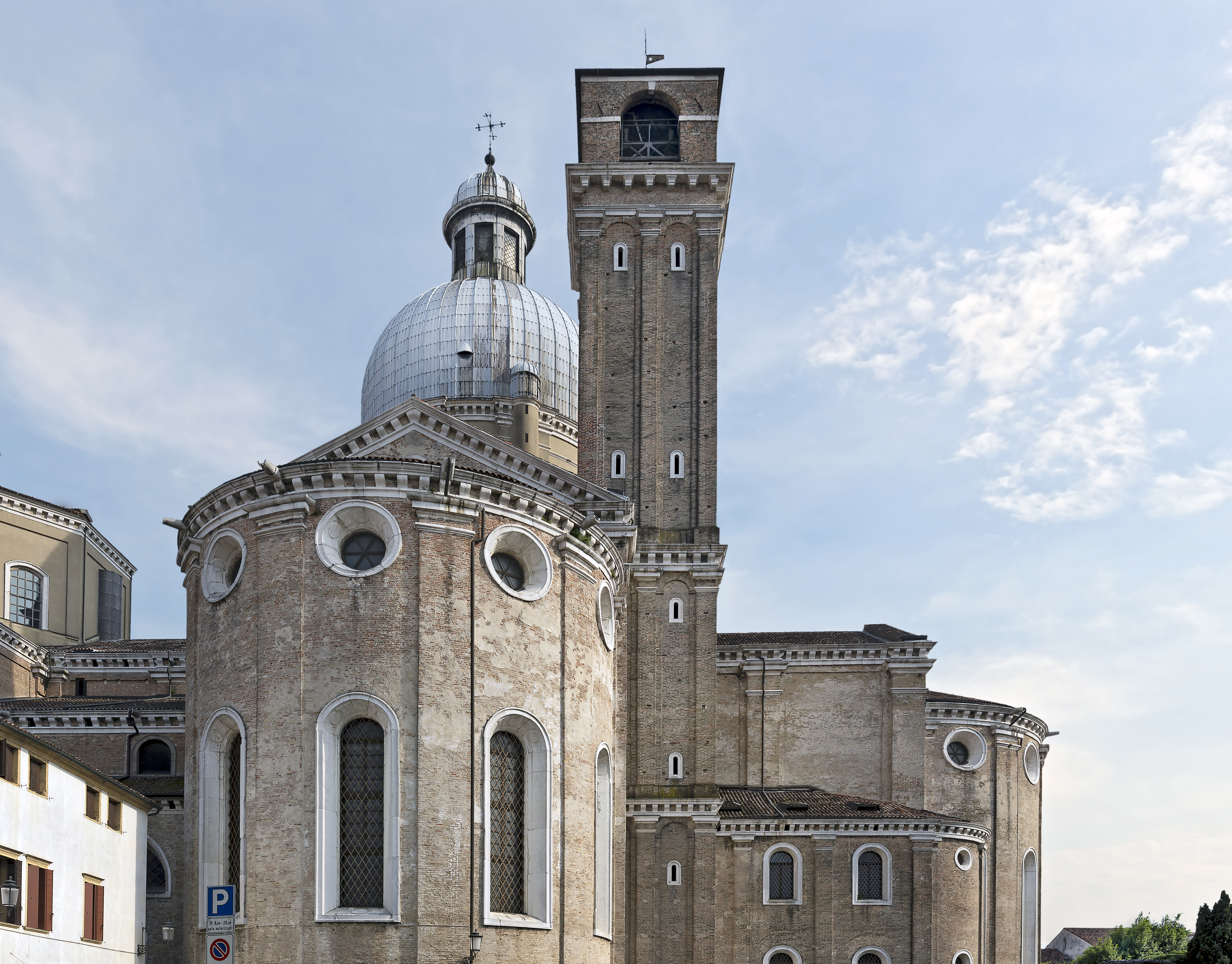 Padua Cathedral - Bell Tower